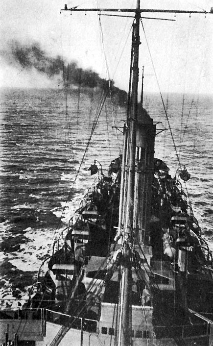 USS Finland (ID # 4543) Halftone reproduction of a photograph taken circa 1918-1919, looking aft from the ship's foremast crows' nest, while she was underway at sea. This image is one of ten photographs published circa 1918-1919 in a "Souvenir Folder" of views concerning USS Finland. Donation of Dr. Mark Kulikowski, 2005. U.S. Naval Historical Center Photograph.